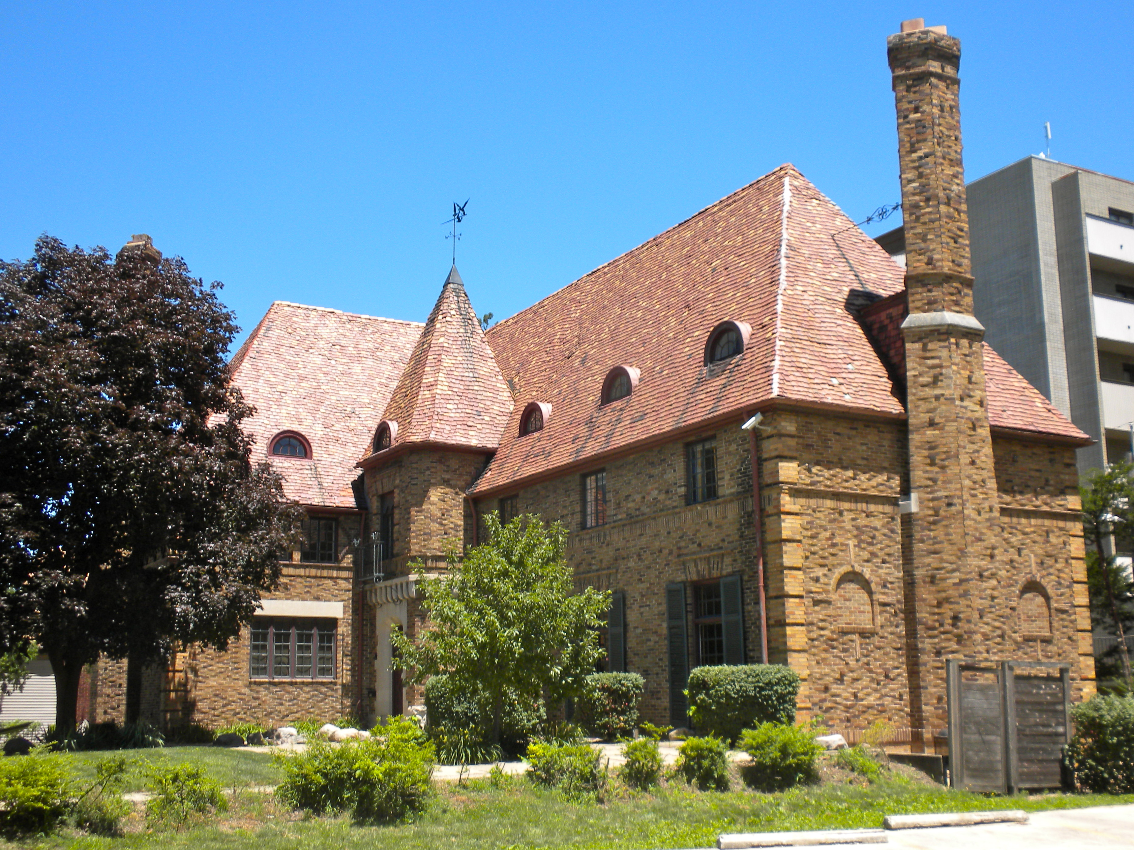 Alpha Rho Chi Fraternity House at the University of Illinois on the NRHP since May 23, 1997. At 1108 S. First St., Champaign, Illinois